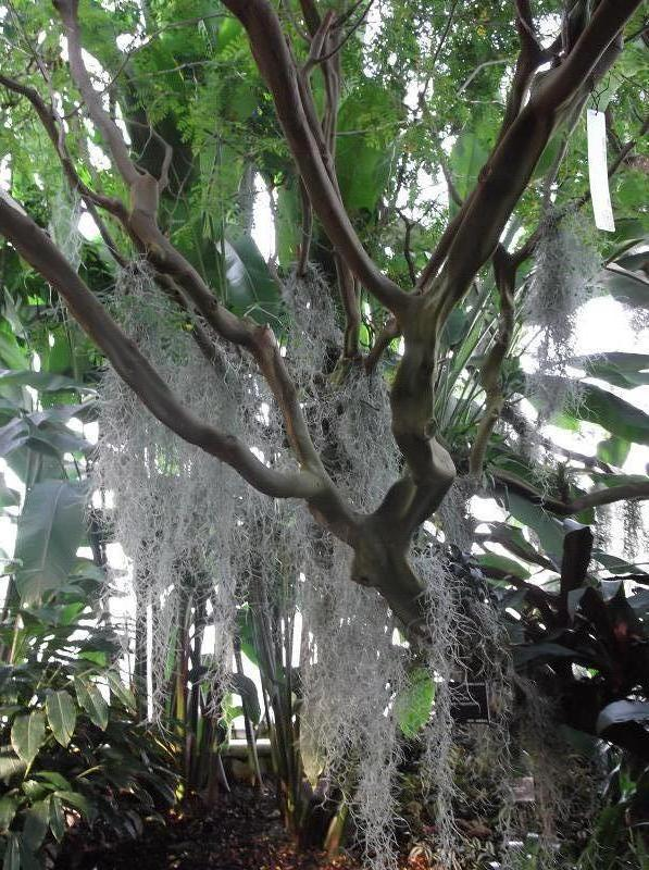 Spanish moss (Tillandsia usneoides) hanging on a tree at the Kew Gardens, England.